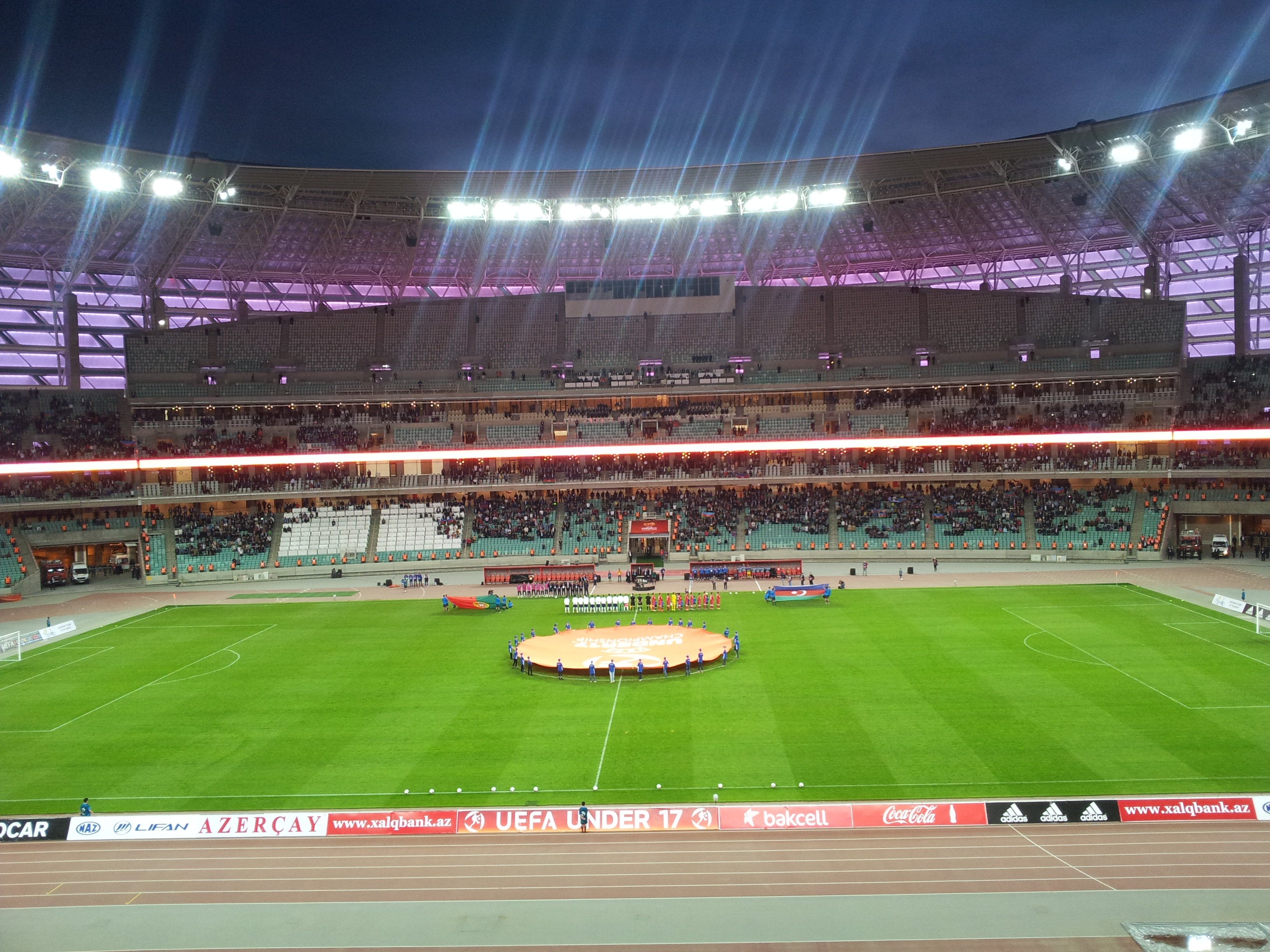 2016 UEFA European Under-17 Championship Final AZE-POR